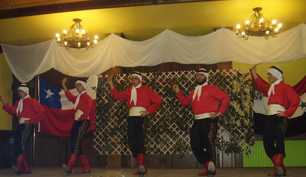 Dabke Club Sirio Unido Chile.